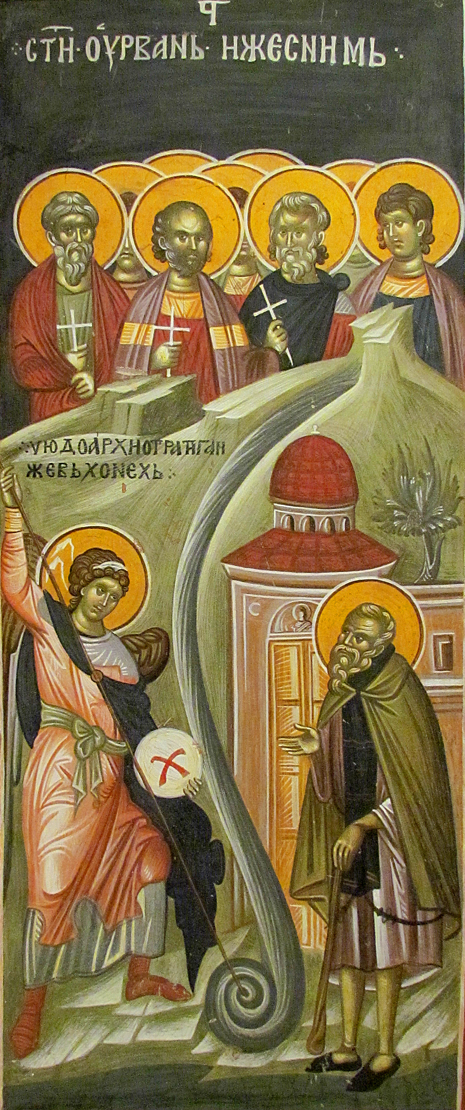 St. Urban and the Archangel Michael miracle in Colossae, Gracanica monastery, Serbia, 1320